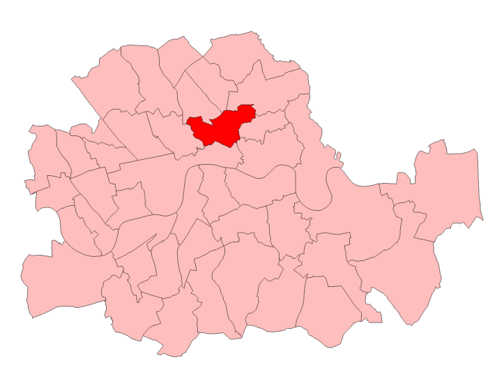 A map of Shoreditch and Finsbury constituency within the London County Council area, as it existed from 1950 to 1974.